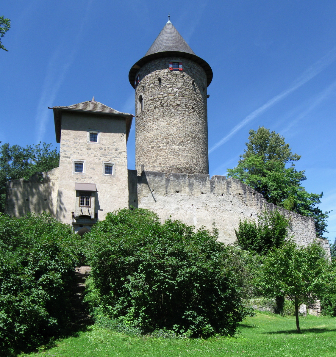 Dornach Castle, Lasberg, Upper Austria